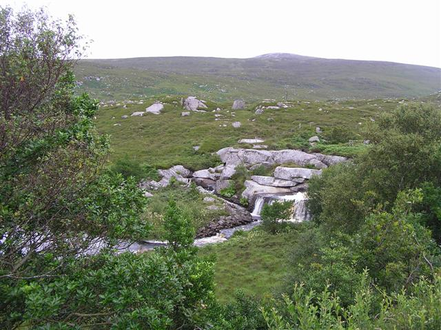 Falls at Crolly Looking south-east